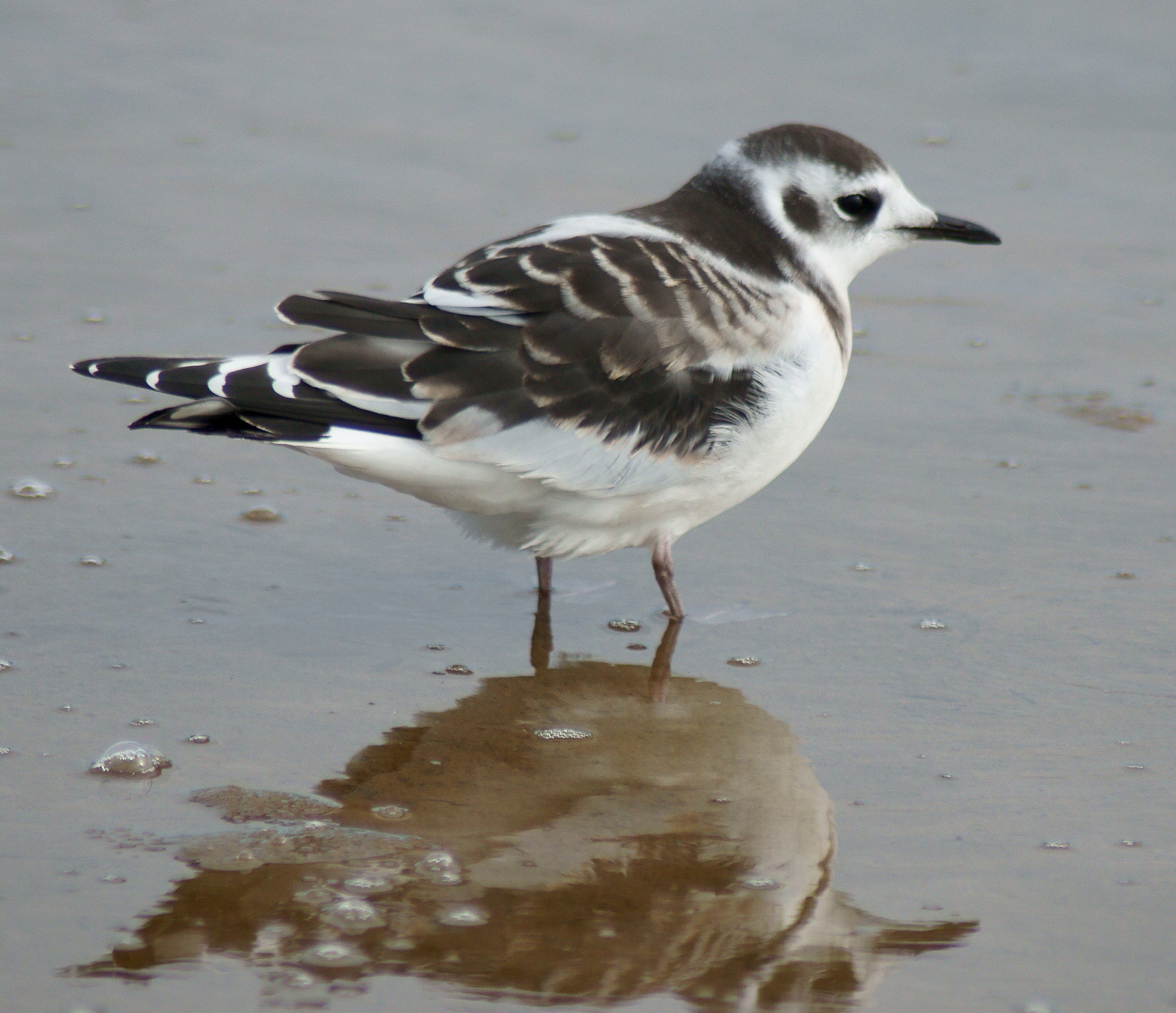 Little Gull (Hydrocoleus minutus) in Yyterin lietteet.